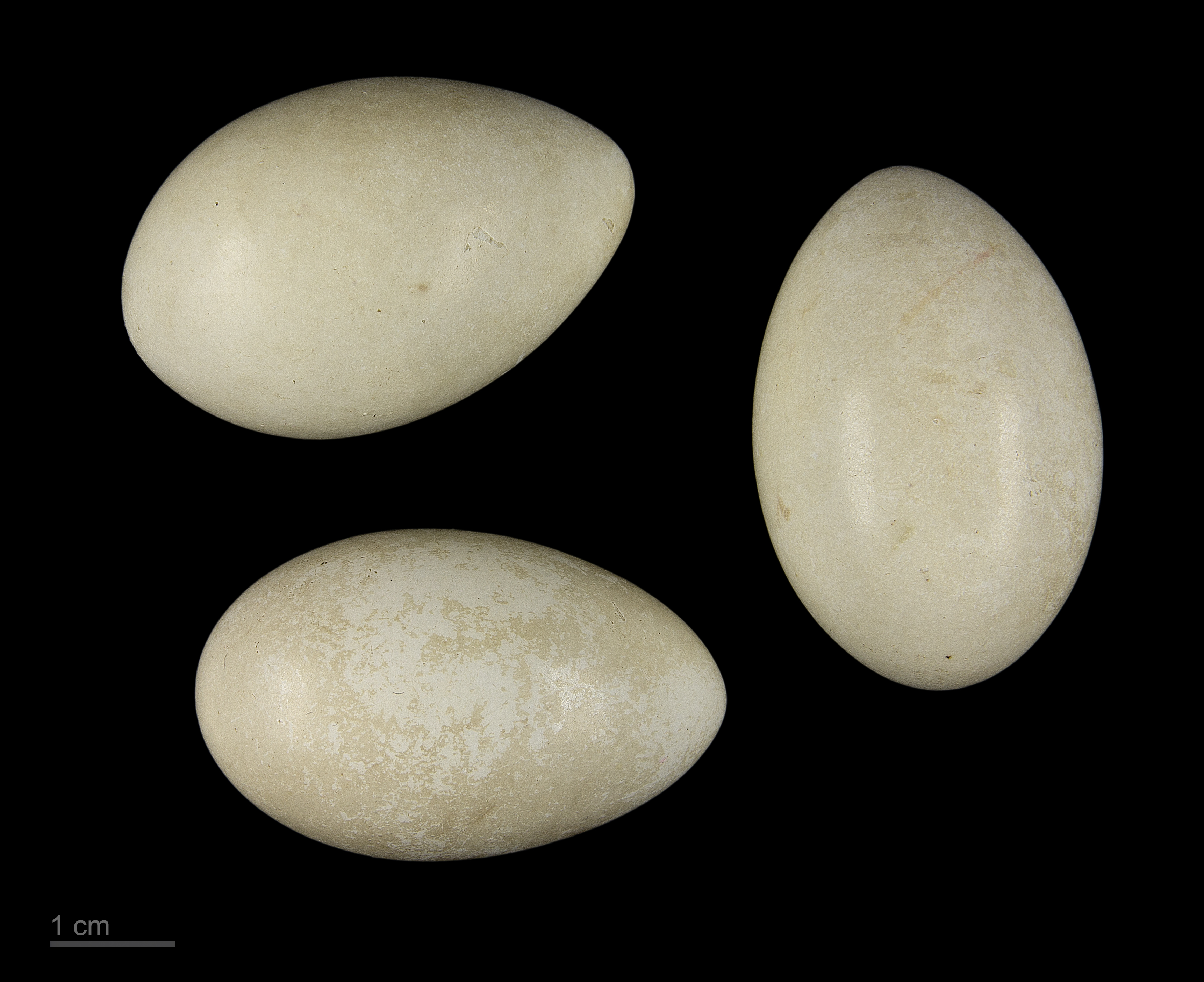 Eggs of little grebe Three specimens of the same spawn ; collection of Jacques Perrin de Brichambaut.